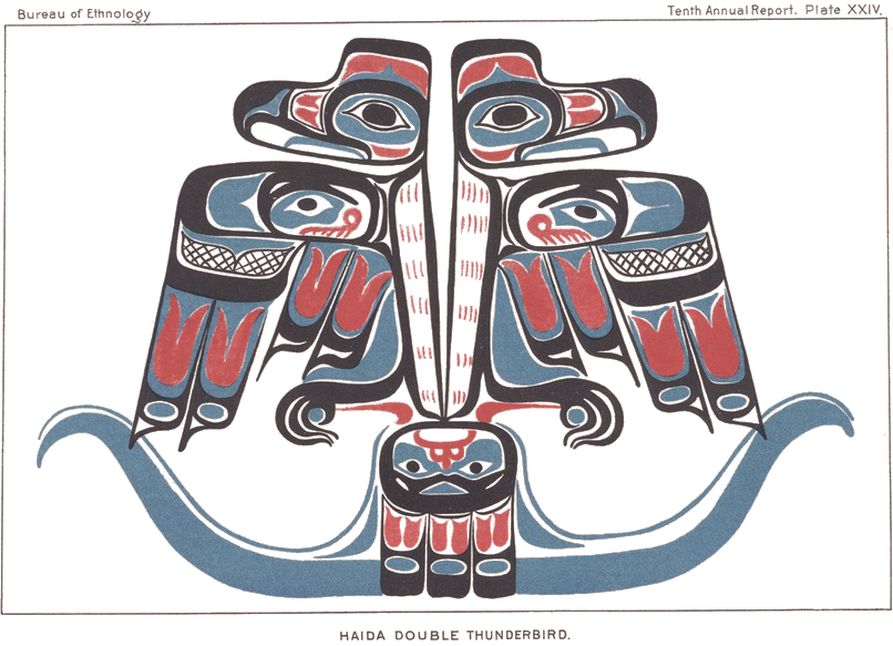 Haida double thunderbird.